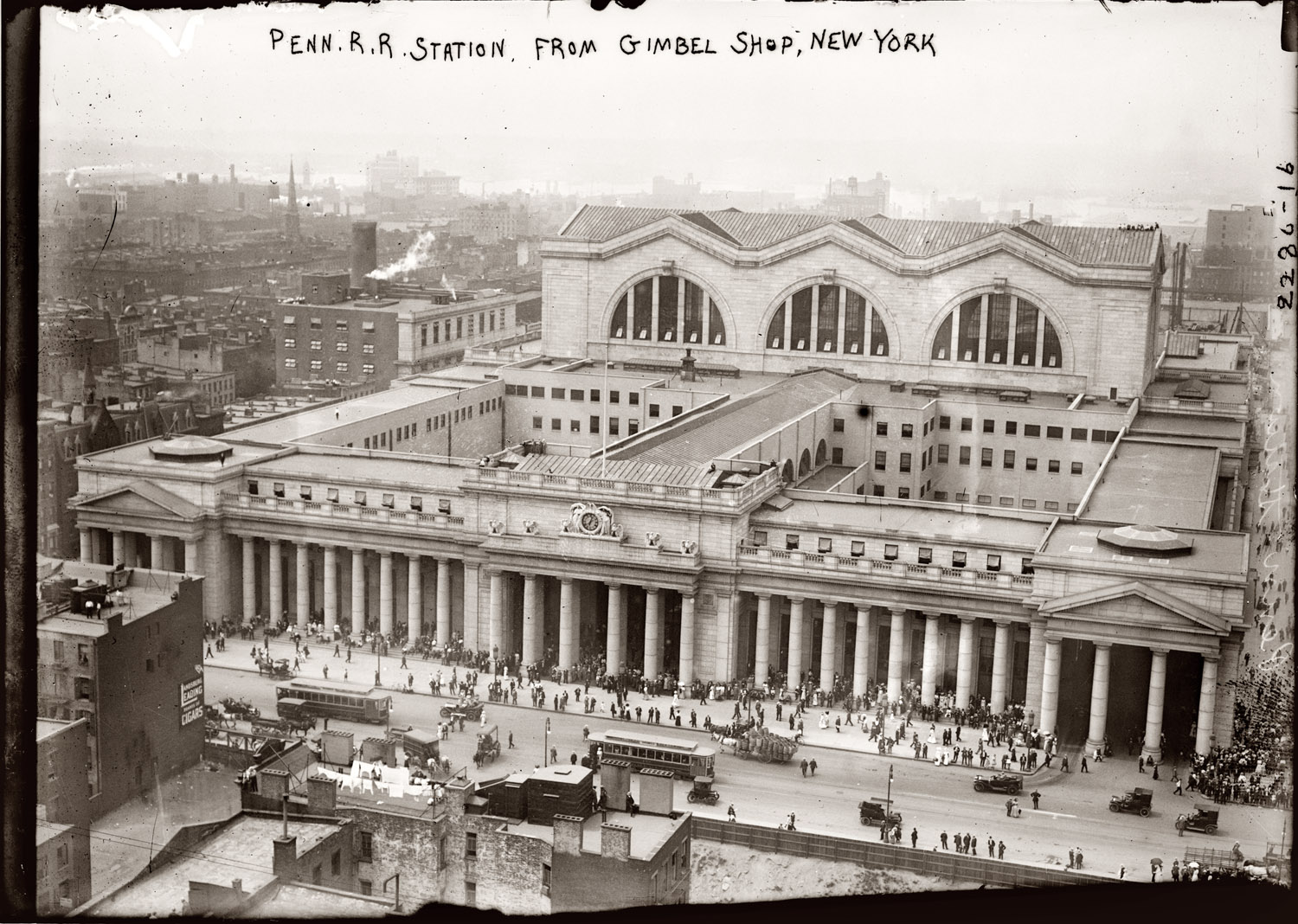 Pennsylvania Station (New York). View from the Gimbel store.